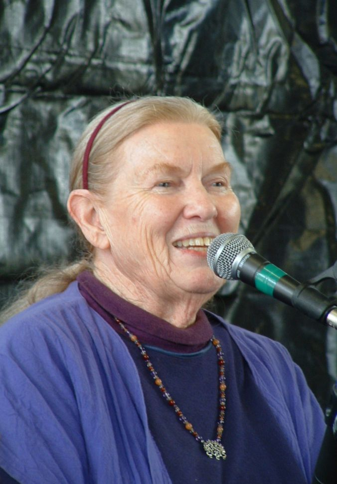 Folk vocalist Jean Ritchie.